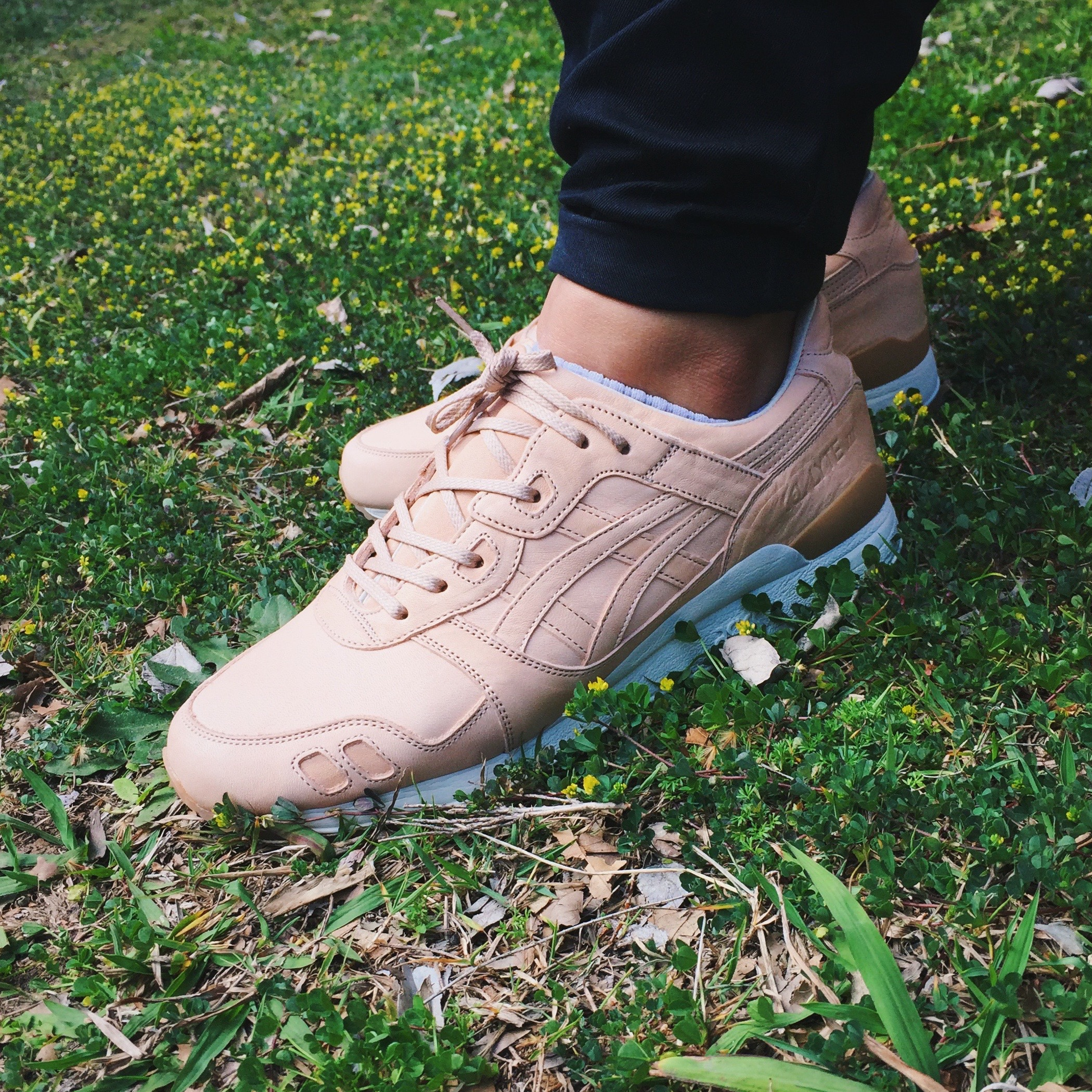 ASICS Gel Lyte III 'Made in Japan' 2015 made of Nume vegetable tanned leather and calfskin lining.